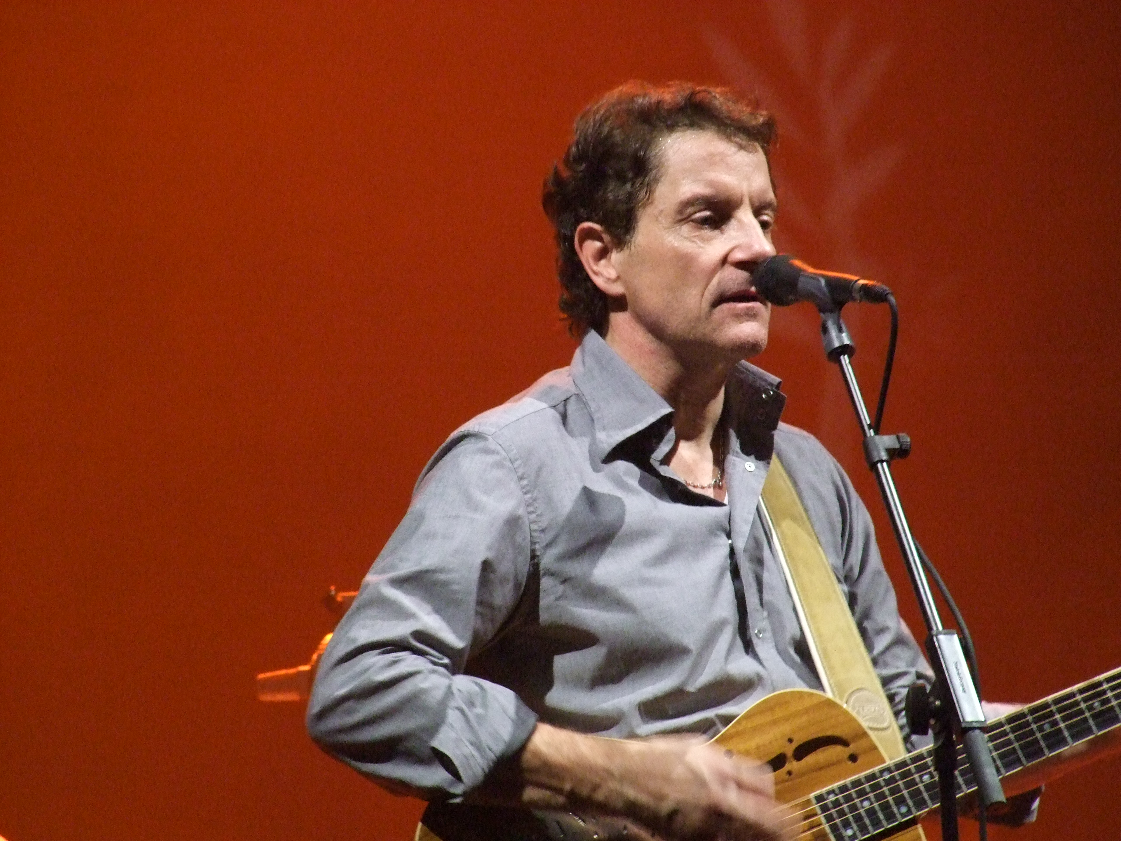 French singer Francis Cabrel performs at Bruxelles Forest National 01-11-2008, picture made from between the audience, made with available light.